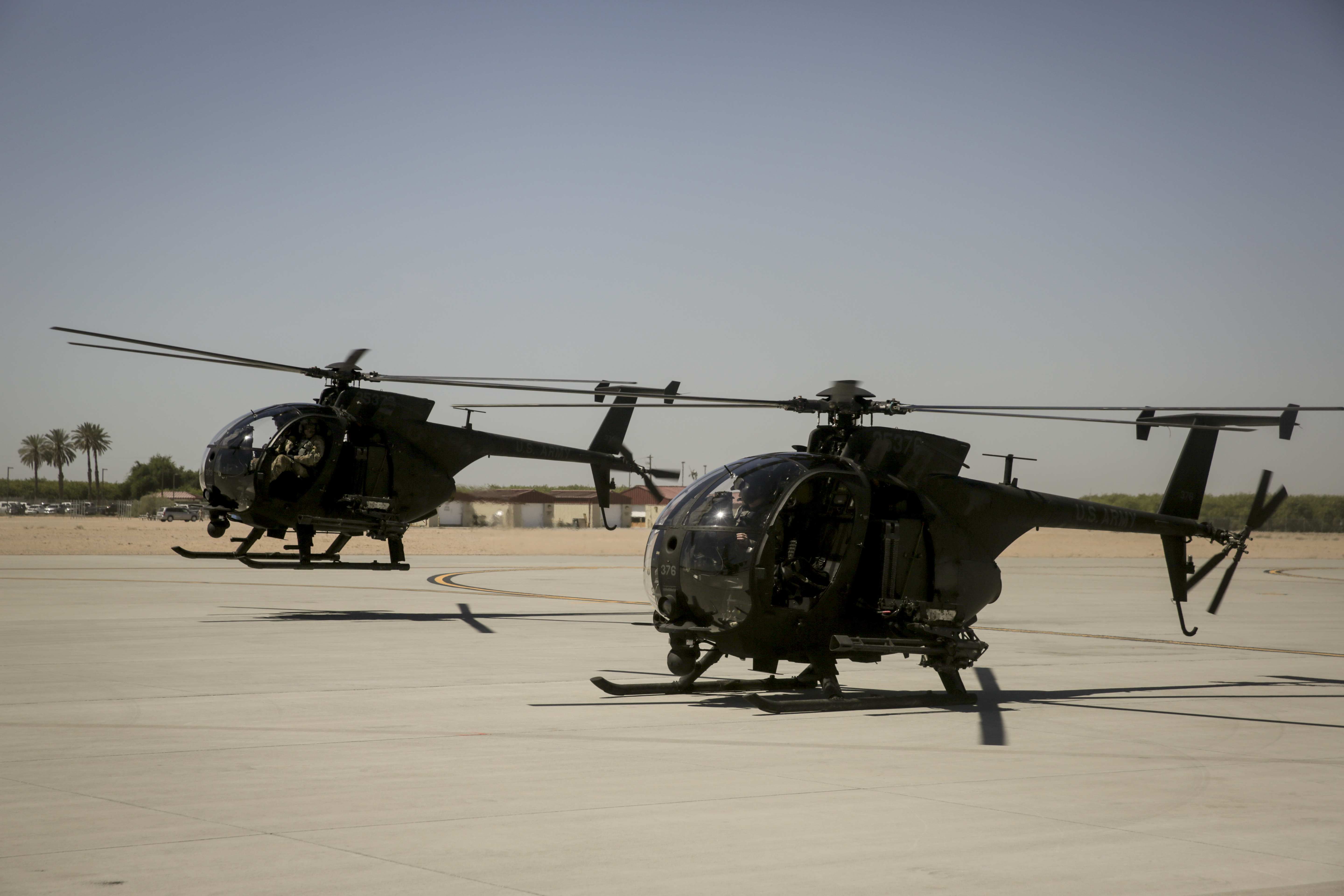 U.S. Army A/MH-6X Mission Enhanced Little Birds land during Weapons and Tactics Instructor (WTI) course 2-16 at Marine Corps Air Station Yuma, Ariz., April 4, 2016. WTI is a seven week training event hosted by MAWTS-1 cadre. MAWTS-1 provides standardized advanced tactical training and certification of unit instructor qualifications to support Marine Aviation Training and Readiness and assists in developing and employing aviation weapons and tactics. (U.S. Marine Corps photo by Lance Cpl. Zachary M. Ford, MAWTS-1 COMCAM/ Released) Unit: Marine Corps Air Station Yuma Combat Camera